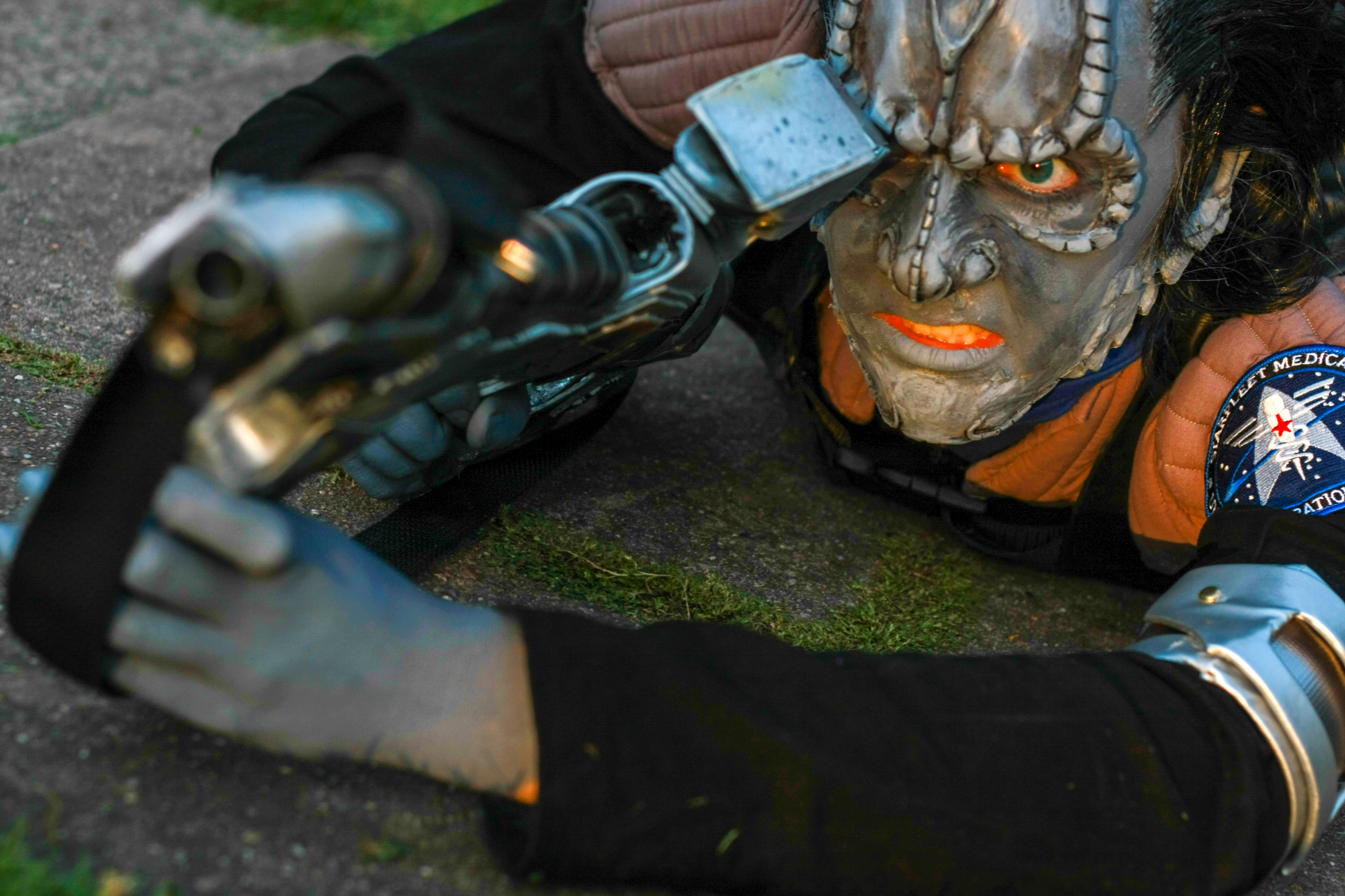 Cardassian Starfleet Sci-Officer "Astargas"